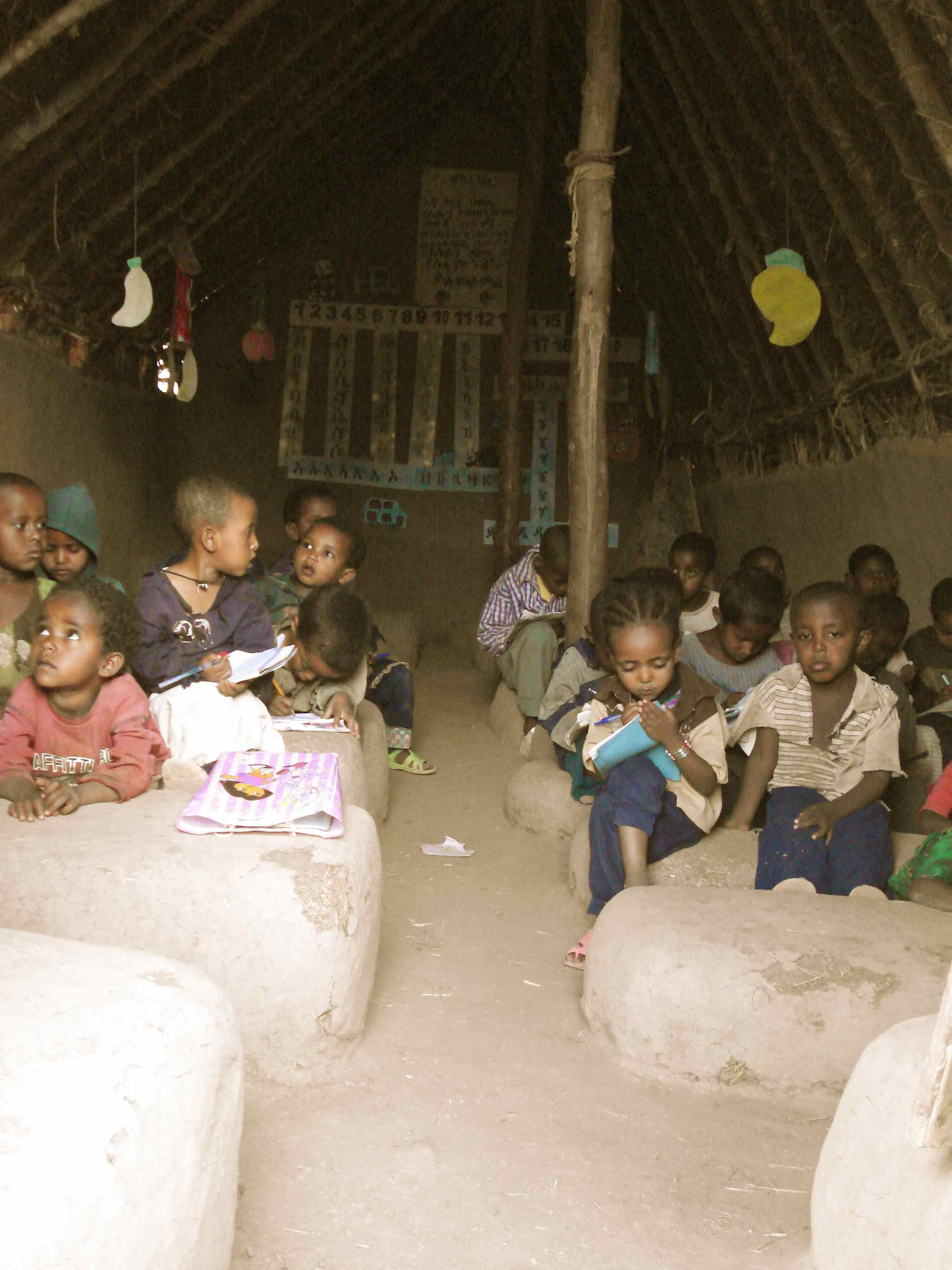 Kindergarten of the Awra Amba community, Ethiopia